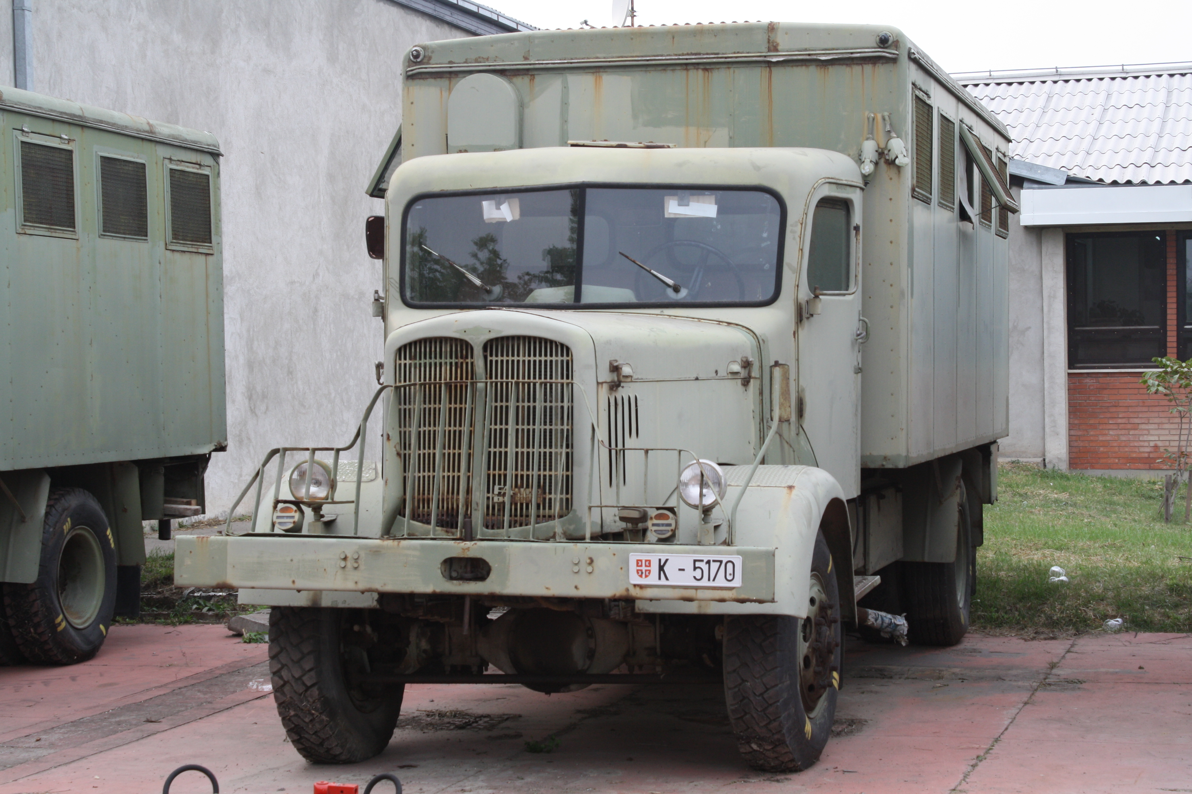 FAP-13 truck at Batajnica Air Base.